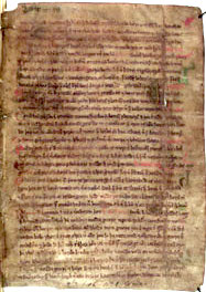 A page from a parchment (animal skin) manuscript of Landnámabók in the Árni Magnússon Manuscript Museum in Reykjavík, Iceland.